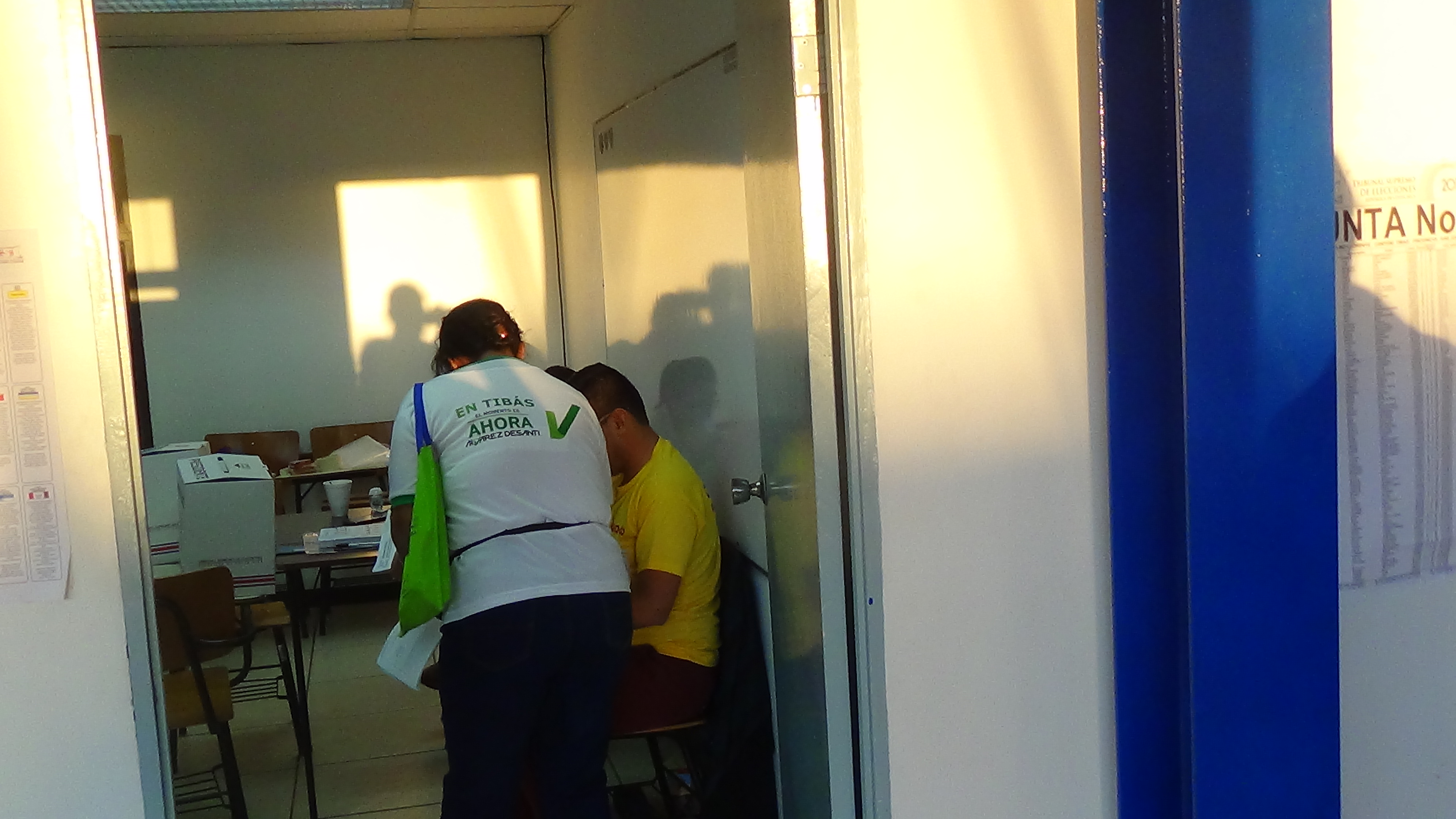 Junta receptora recibiendo votante